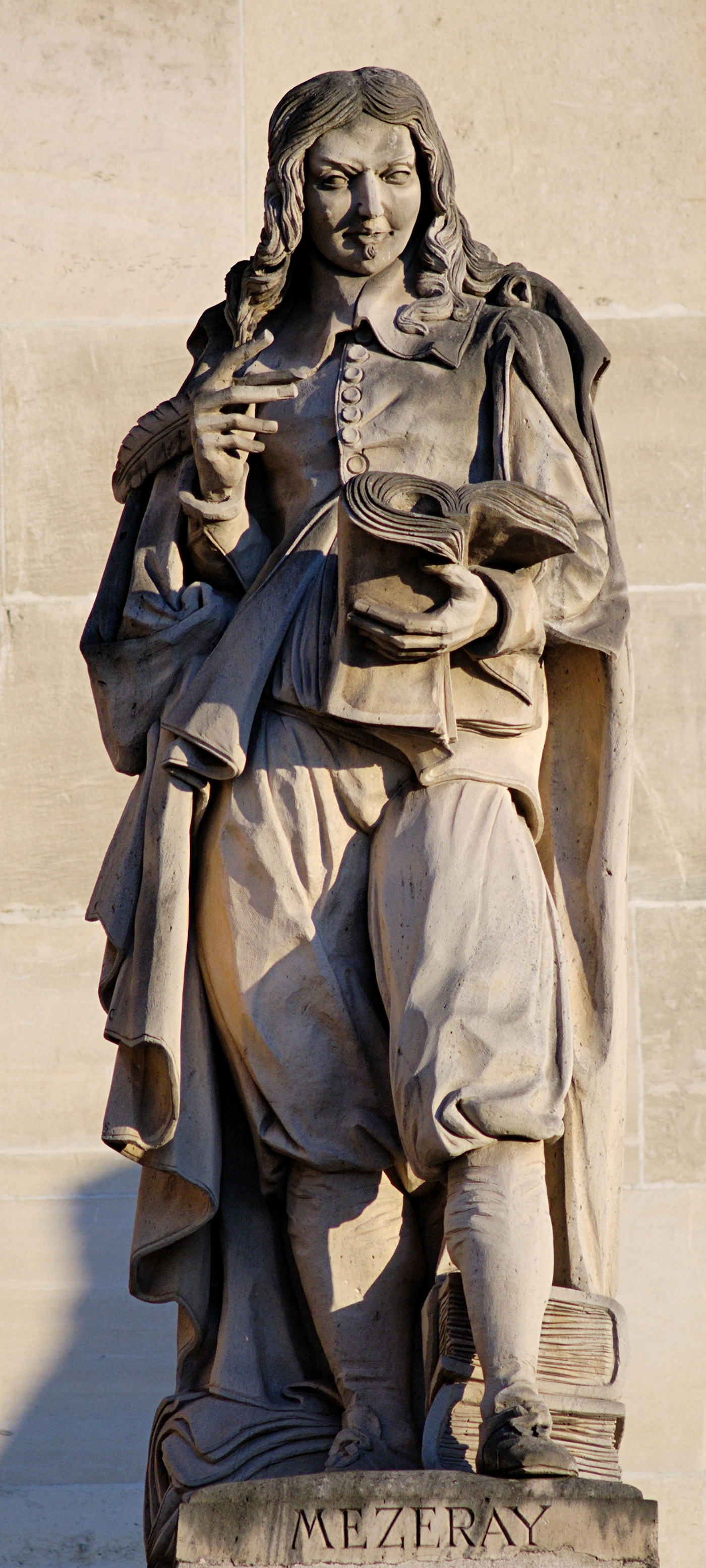 François-Eudes de Mézeray by Louis-Joseph Daumas. Stone, before 1853. 3rd statue from Pavillon Rohan to Pavillon Turgot, Cour Napoléon in the Louvre.